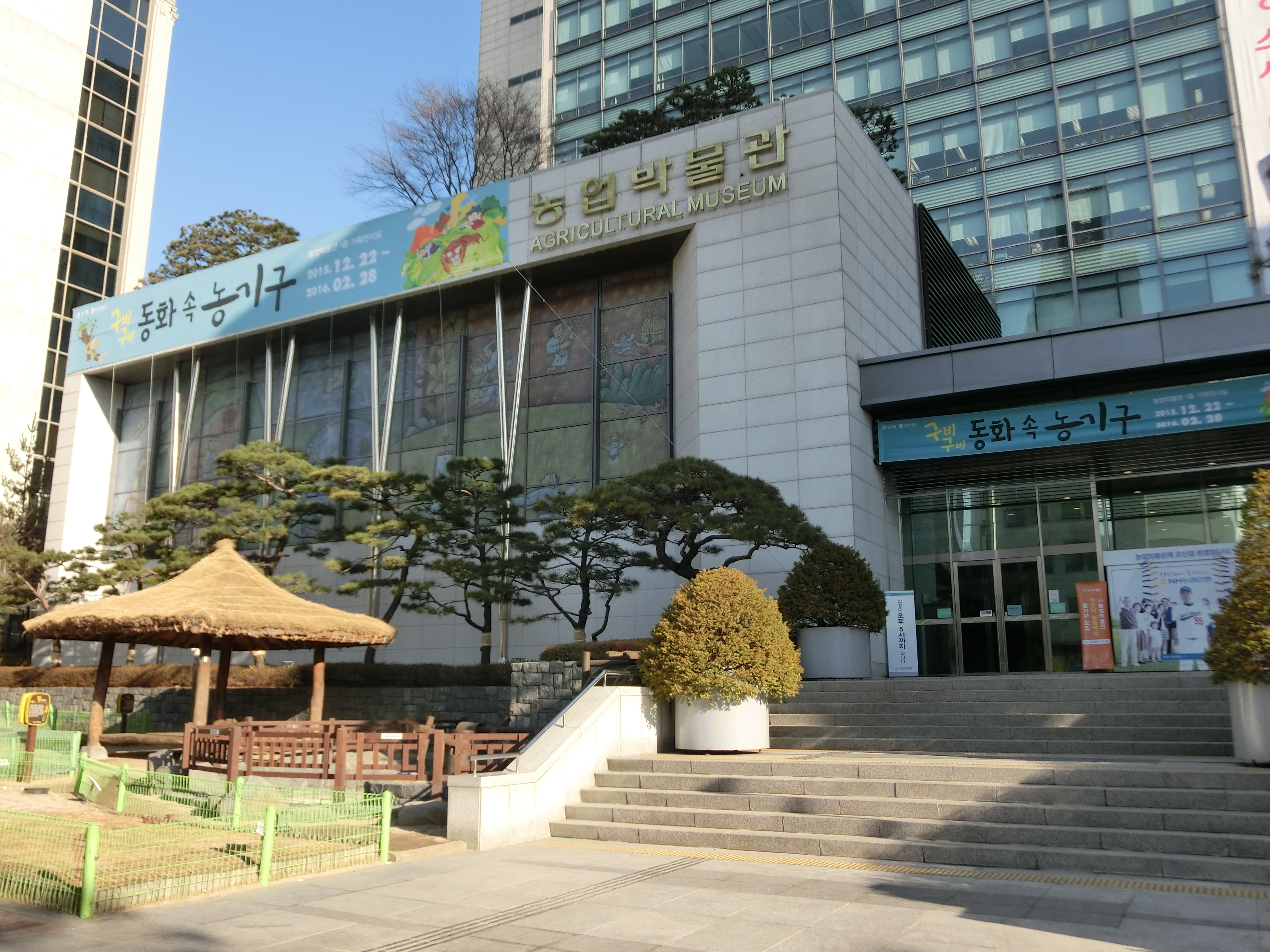 Nonghyup Agricultural Museum